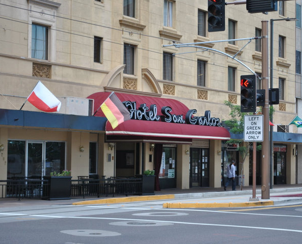 Maruqee shot of Hotel San Carlos in Phoenix, Ariz.